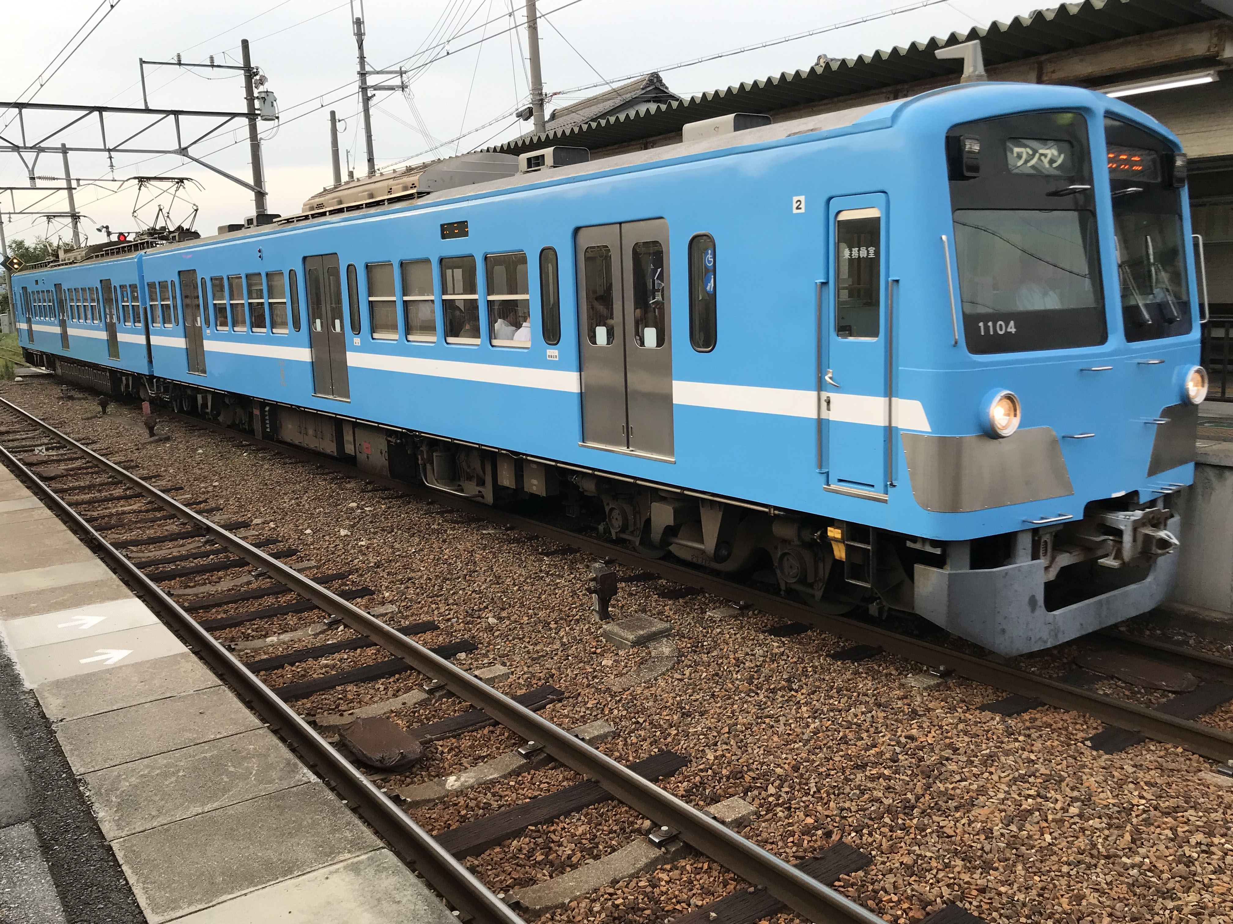 Ohmi Railway 1104 at Musa station